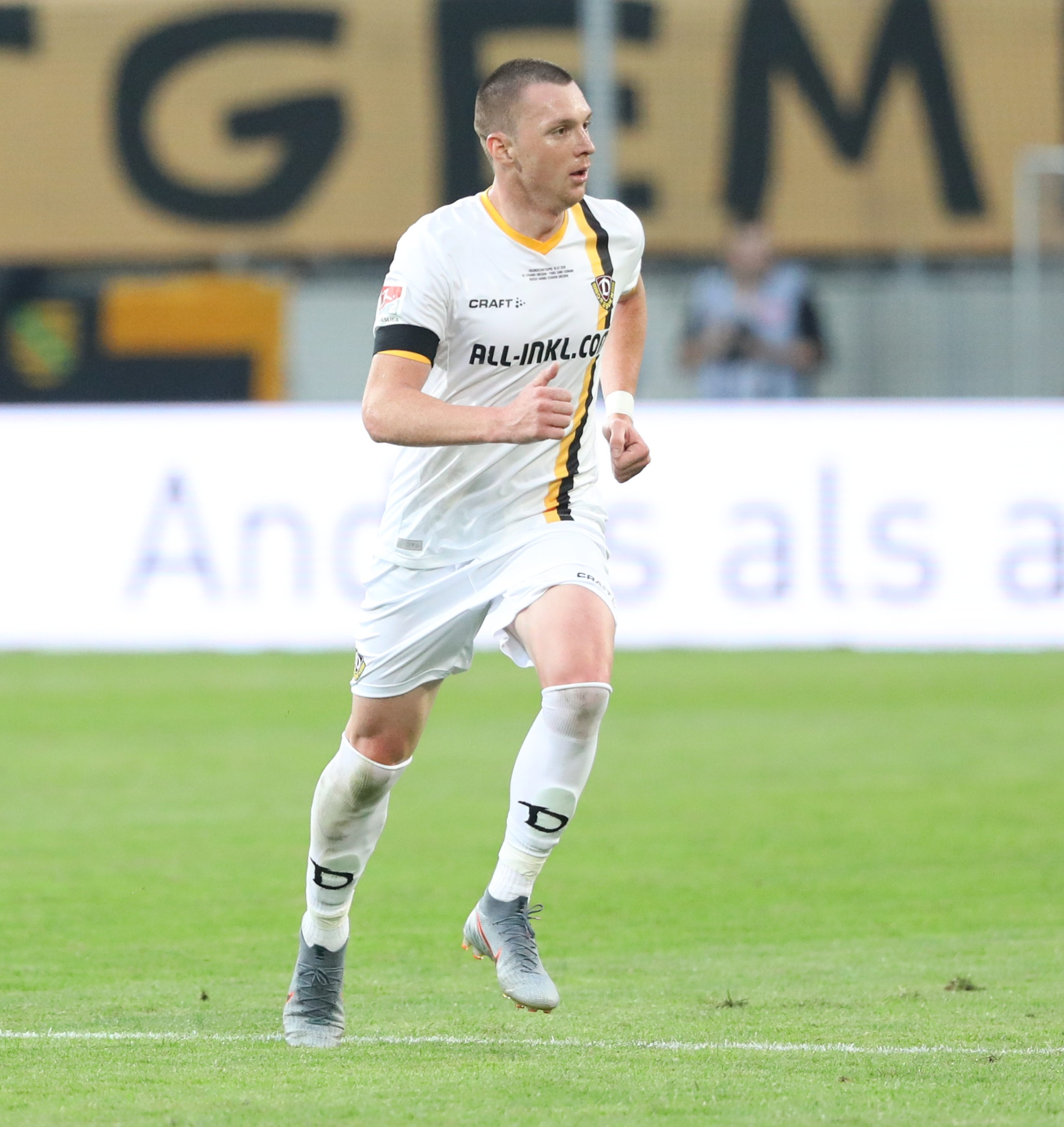 Test game, 17th July 2019: SG Dynamo Dresden vs. Paris Saint-Germain 1:6 (0:3)